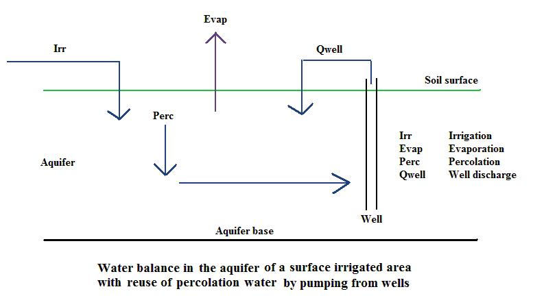 R.J.Oosterbaan self-made